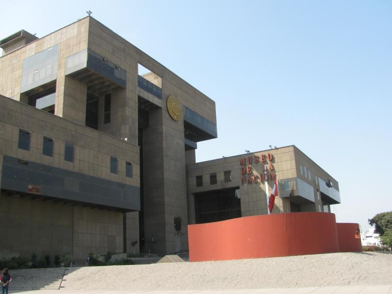 none of the artifacts were available because of renovation